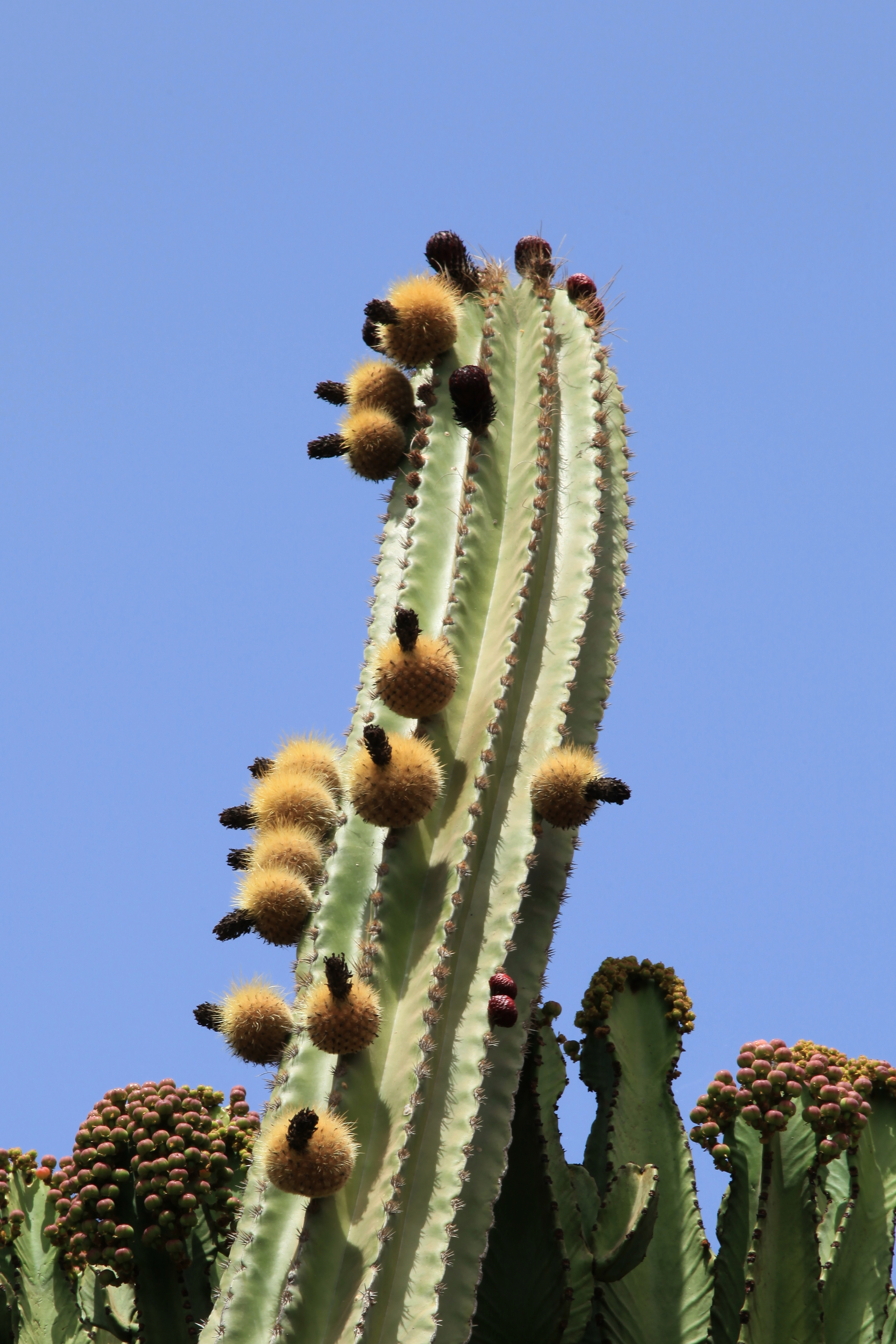 ??? in the Oasis Park in La Lajita, Pájara, Fuerteventura, Canary Islands